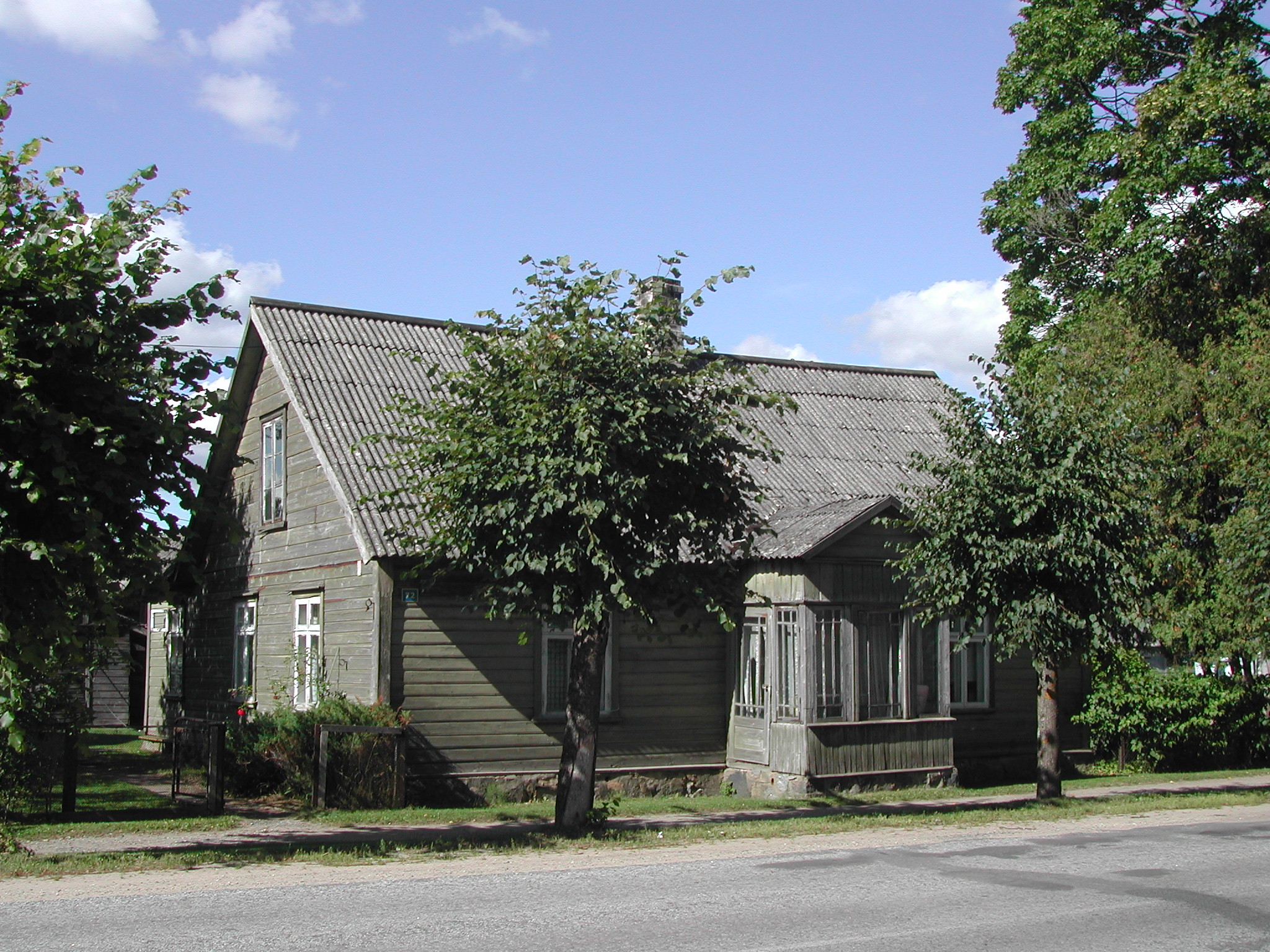 Wooden house in Kilingi-Nõmme, Estonia